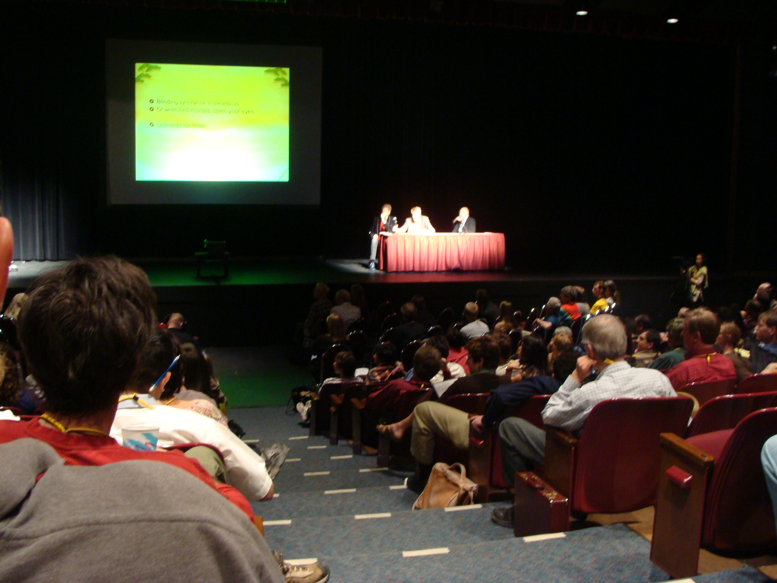 A plenary session of "Toward a Science of Consciousness" conference, 2008, Tucson, Arizona.